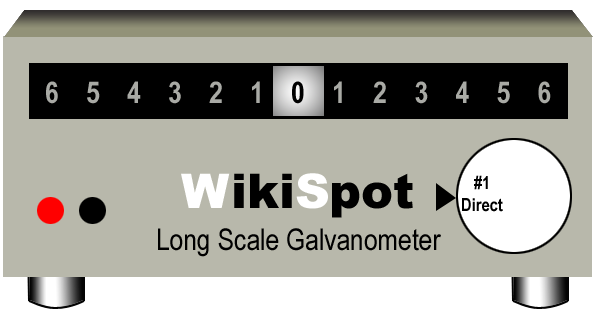 Drawing of an edspot style galvanometer. Redrawn by Thespian based on Original by Theresa Knott.